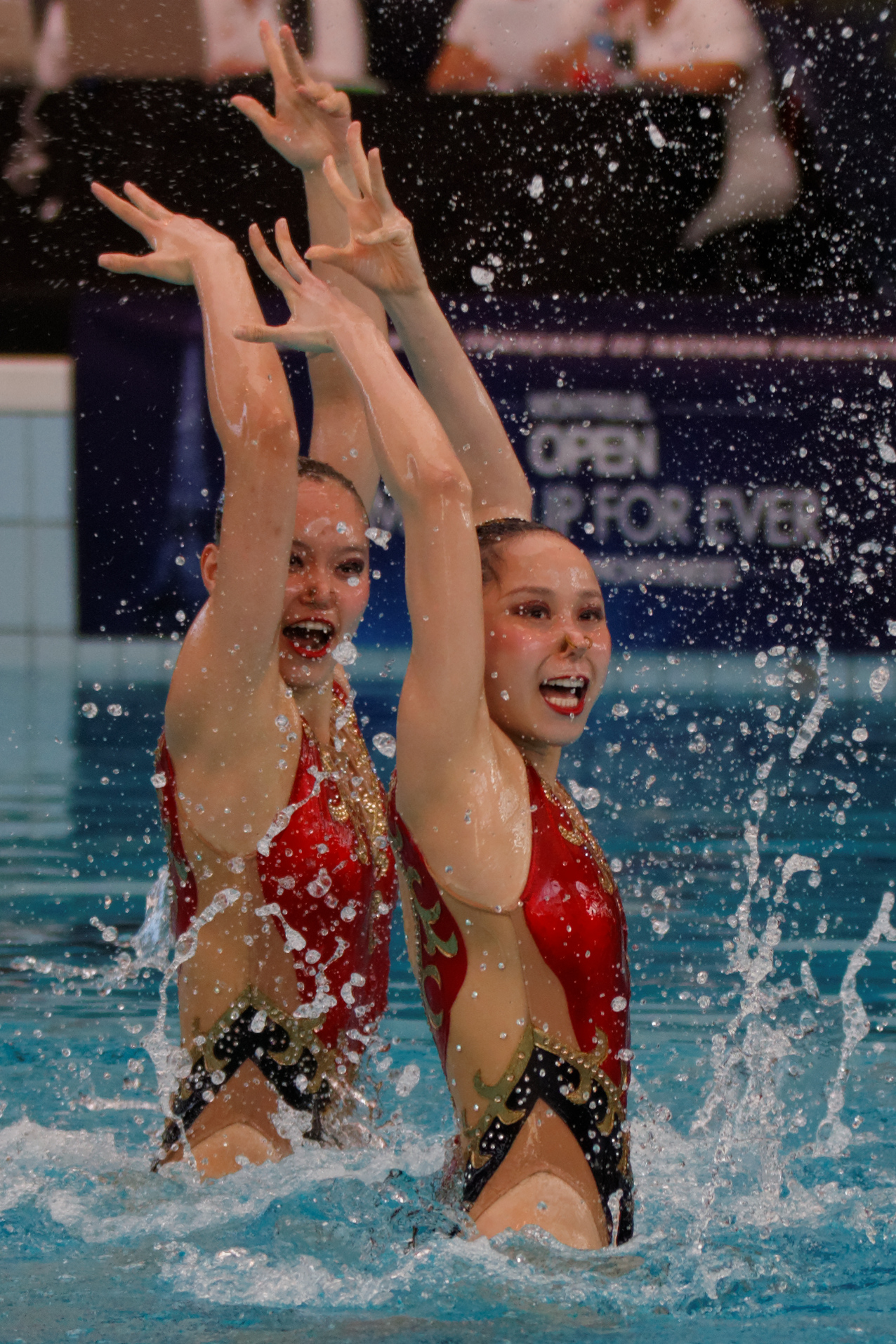 Wu Yiwen and Huang Xuechen, duet technical routine, Open Make Up For Ever.